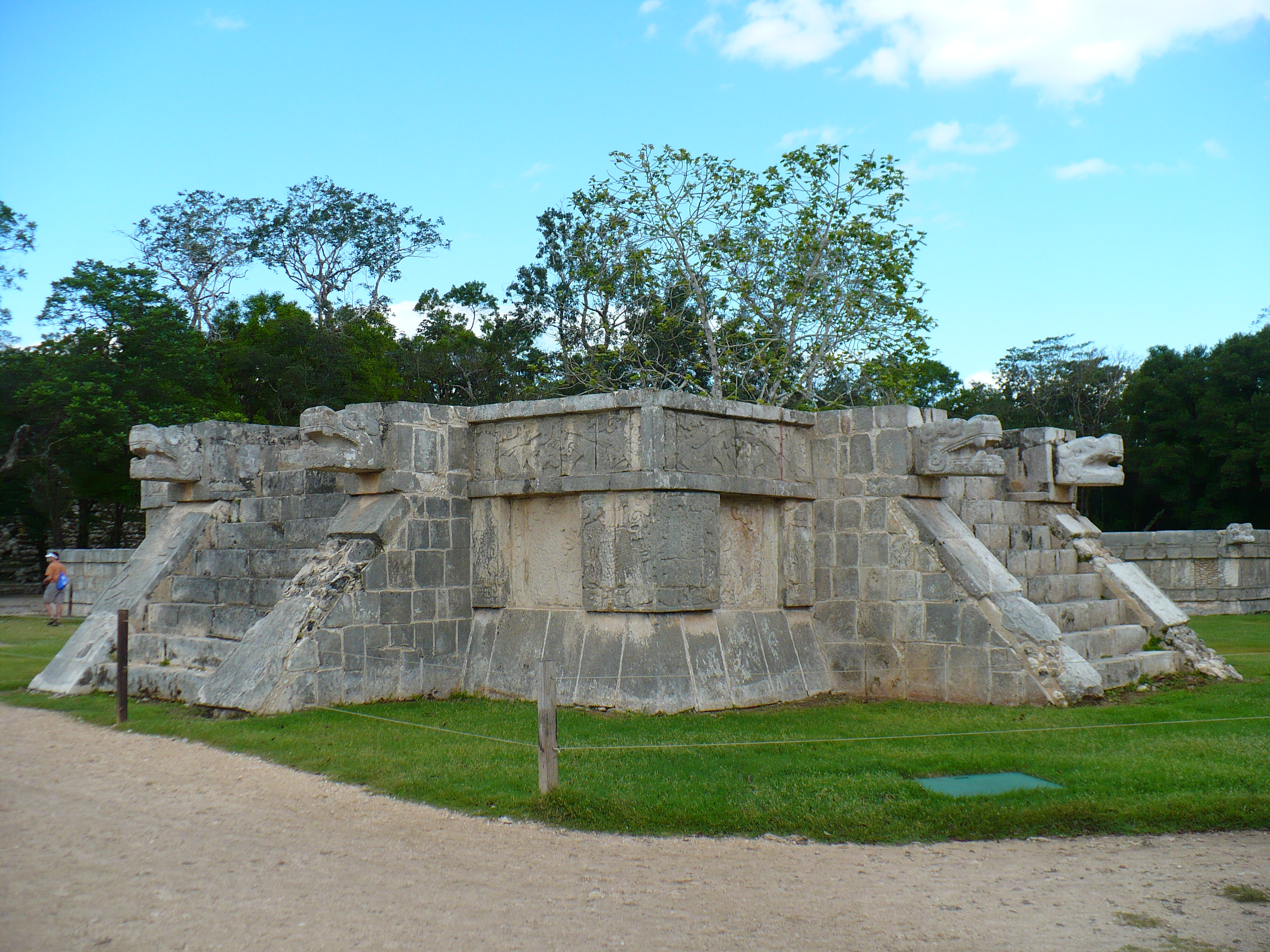 View of the Platform of Venus at Chichen Itza.